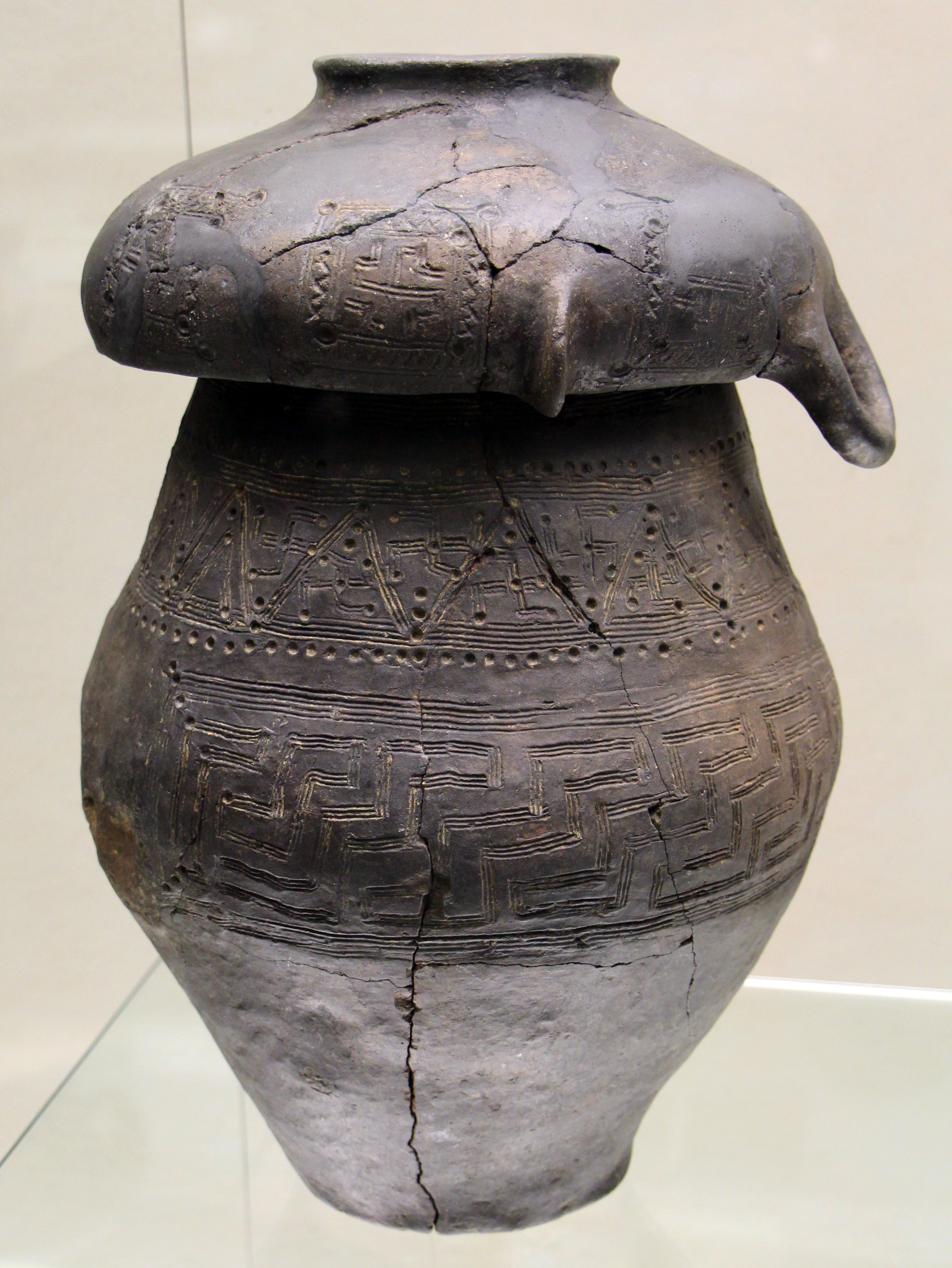 Etruscan art in the Museo archeologico nazionale (Florence)